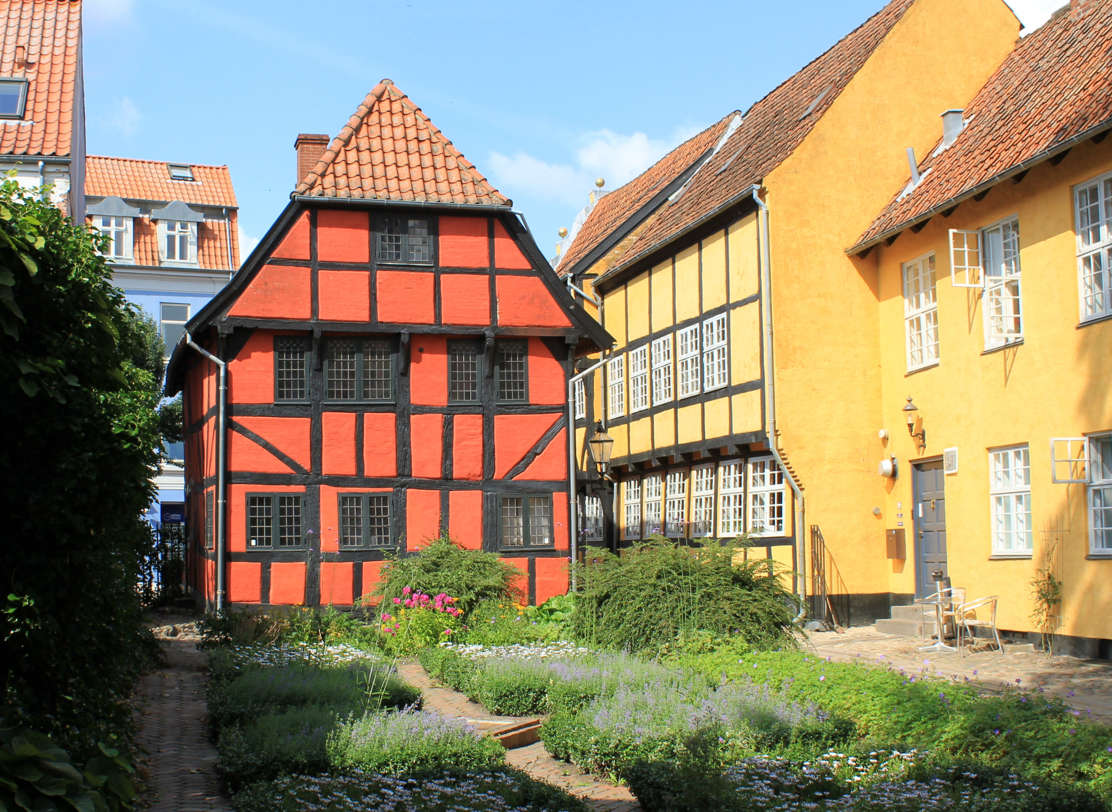 The old citizen's house, Helligkorsgade 18, 6000 Kolding, Denmark, Kolding's oldest building. It's probably built in 1589. It's the red house on the left. The gable has a cannonball, built into the wall, as a memorial, because the house was not destroyed during a bombing in the First Schleswig War. The bombardment took place on 23 April 1849 during the Battle of Kolding. Since 1908 it has been a listed building.